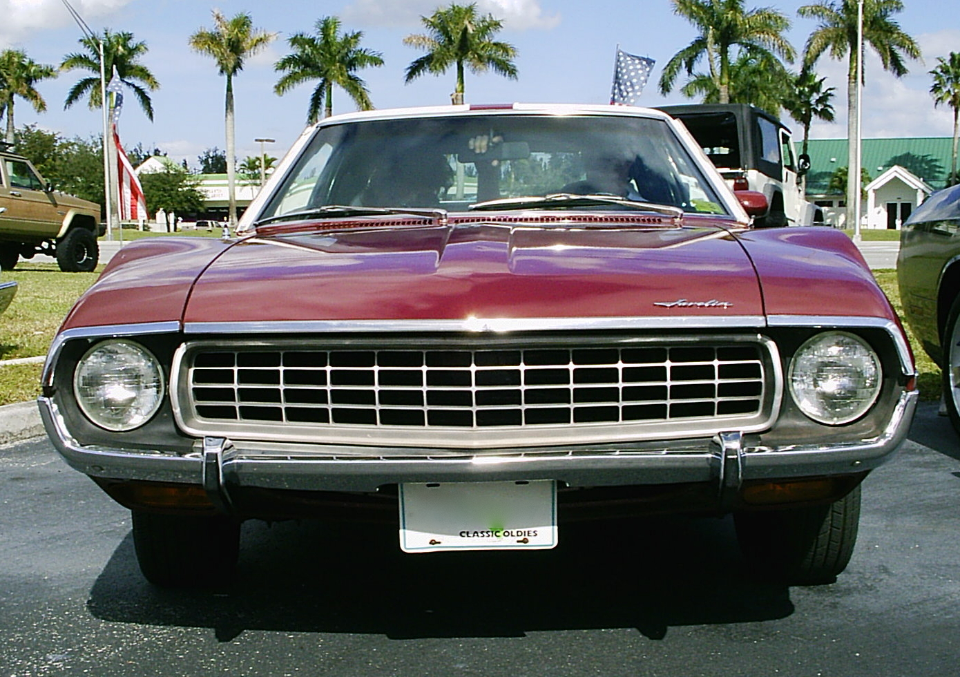 Head on view of the 1972 Javelin SST coupe, built by American Motors Corporation (AMC), a pony car finished in Sparkling Burgundy (paint code D8) equipped with AMC's 360 CID (5.9 L) 2-barrel V8 engine, all in original "driver" condition.